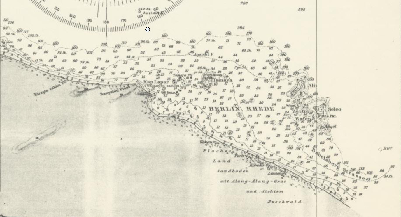 Bay "Berlin Rehde" (Berlin Harbour) in Papua New Guinea - snippet from 1901 German Navy map